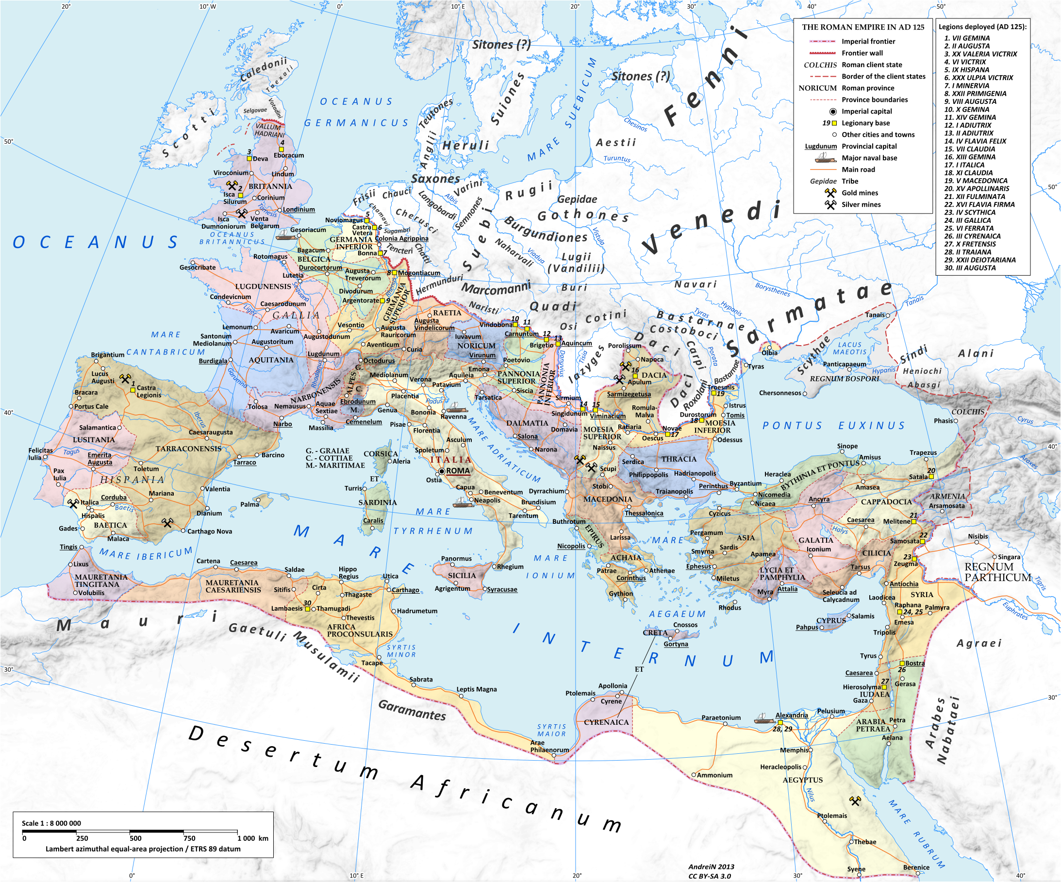 Map of the Roman Empire in 125 during the reign of emperor Hadrian. Projection Lambert azimuthal-equal area. Central latitude: 45° N, central longitude: 20° E. X, Y origin offset - 0 Datum: ETRS89 Sources The physical map was made using the following public domain sources: Topography: NASA Shuttle Radar Topography Mission (SRTM30) data Shoreline, lakes and rivers: derived from Natural Earth data Additional references for the map content: Tacitus, Germania (ca. 100) Ptolemy, Geographia (ca. 140) Atlante storico DeAgostini, Instituto Geografico DeAgostini, 1998. pg. 35-41. Historischer Weltatlas, Dr. Walter Leisering, Marix Verlag, 2011. pg. 26-27 Történelmi világatlasz, Cartographia Kiadó, 2005. pg. 20-21. The Penguin Historical Atlas of Ancient Rome by Christopher Scarre, Penguin Historical Atlases, 1995. pg. 81. Software used GIS: Open JUMP GIS (open source): GRASS GIS (open source): Graphics editors: Inkscape (open source): GIMP (open source)